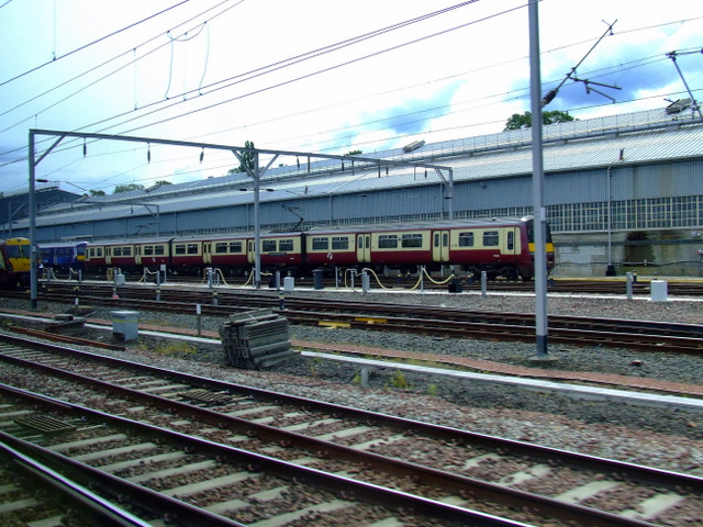 Shields Depot